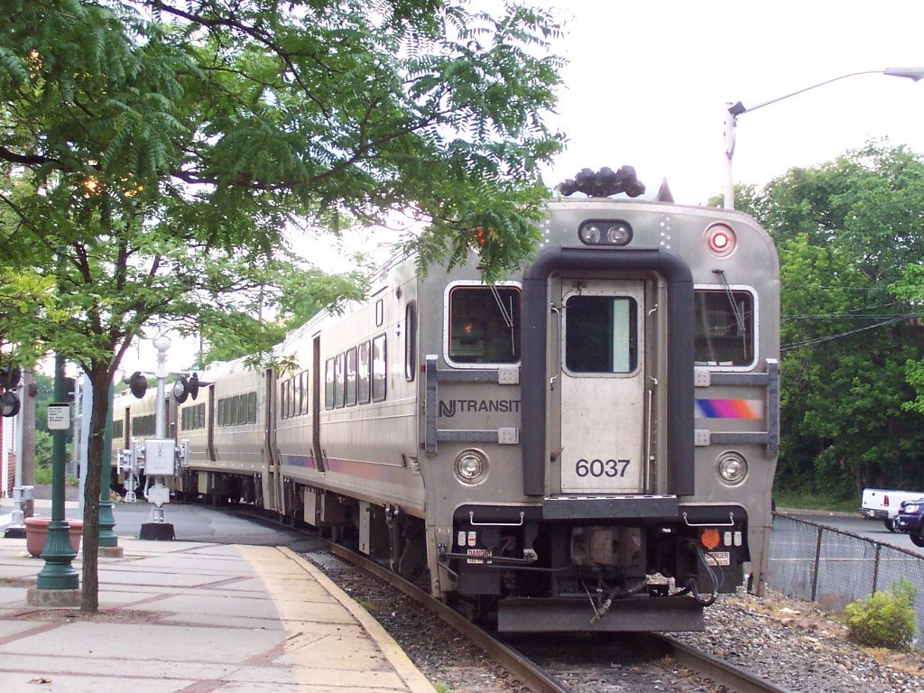 NJ Transit car 6037 leaves the Spring Valley Railroad Station